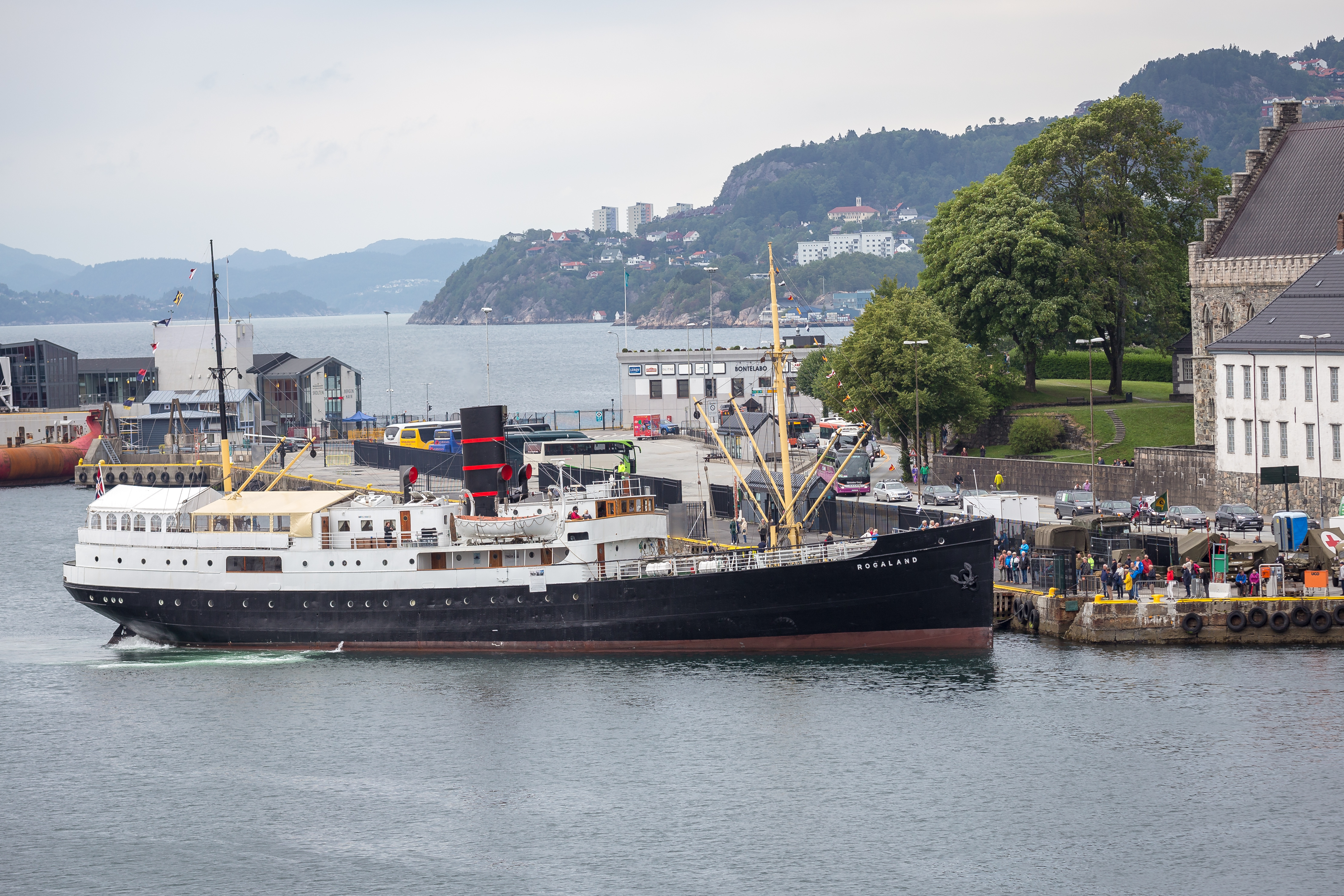 From the arrival parade at Fjordsteam 2018. The maritime heritage festival took place between August 2 and August 5 2018 in Bergen, Norway.